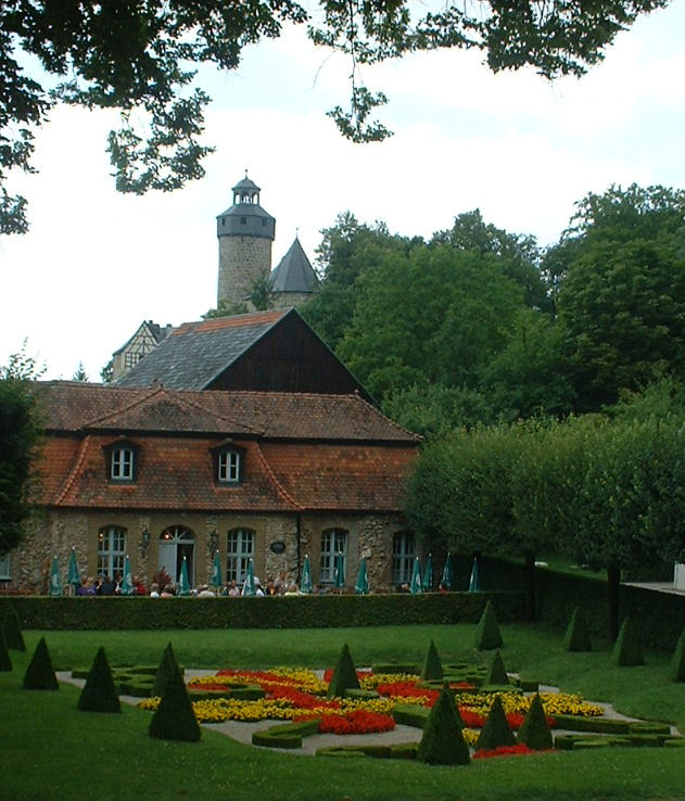 Zwernitz castle at Sanspareil near Hollfeld / Kulmbach (Franconia)